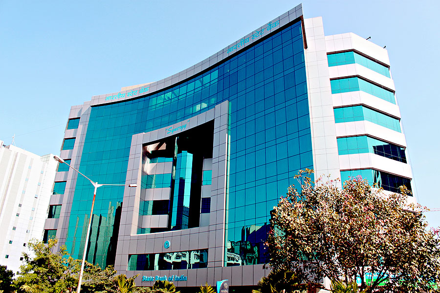 The Local Head Office of State Bank of India, Mumbai Circle.